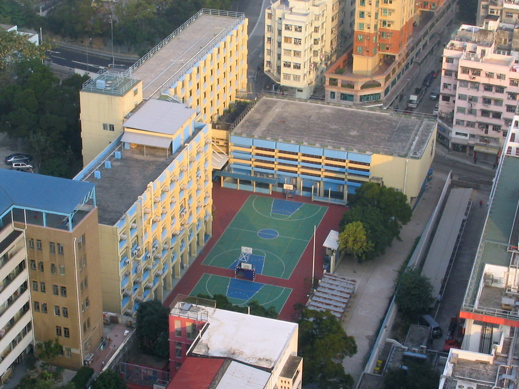 St. Bonaventure College and High School